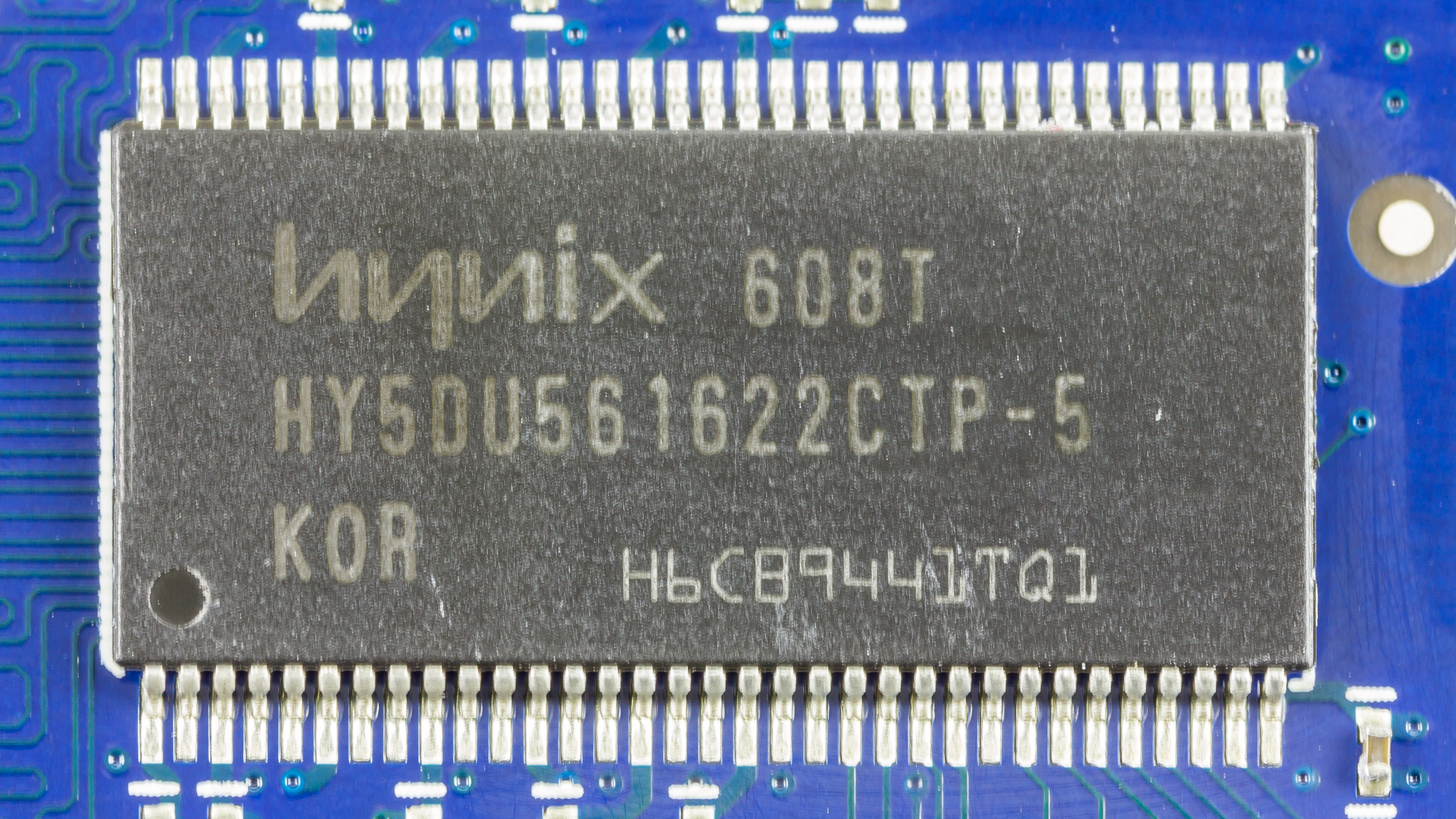 ATI Radeon X1300 256MB - Hynix HY5DU561622CTP-5 - 256M(16Mx16) gDDR SDRAM. Package: TSOP-II